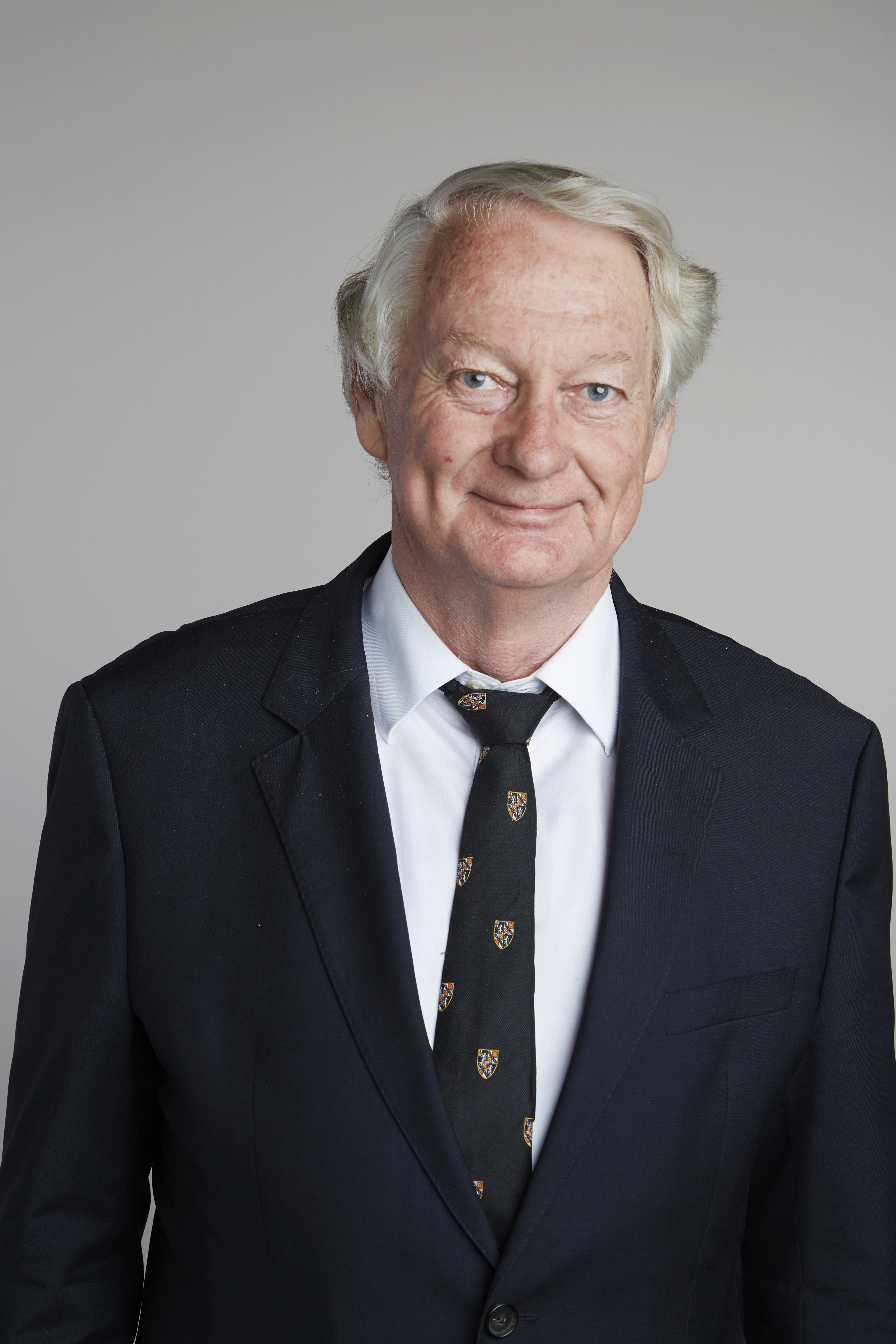 John C.H. Spence ForMemRS completed a PhD in Physics at Melbourne University in 1972, followed by a postdoc at Oxford in Materials. He is the Director of Science for the NSF "BioXFEL" Science and Technology Center, a consortium of seven US Universities devoted to the development of hard X-ray lasers for structural biology. He received the Distinguished Scientist and Burton awards from MSA, the Buerger Award from ACA and the Cowley Medal from IFSM. He is a Fellow of AAAS, of APS, of MSA, of IOP, and an overseas Fellow of Churchill College. He was Co-Editor of Acta Cryst. for a decade and is Main Editor of IUCrJ (XFEL Science). He served on many advisory committees (eg BESAC) and was chair of the IUCR Commission on Electron Diffraction. A Festschrift of Ultramicroscopy appeared in 2011. His research is focussed on atomic-resolution electron microscopy for imaging atomic processes in solids, defects and bonding in materials, and instrumentation development for new microscopies. John teaches graduate condensed matter physics at ASU, with a joint appointment at LBNL.